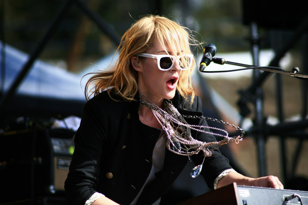 Emily Haines showing off her hover necklace charm